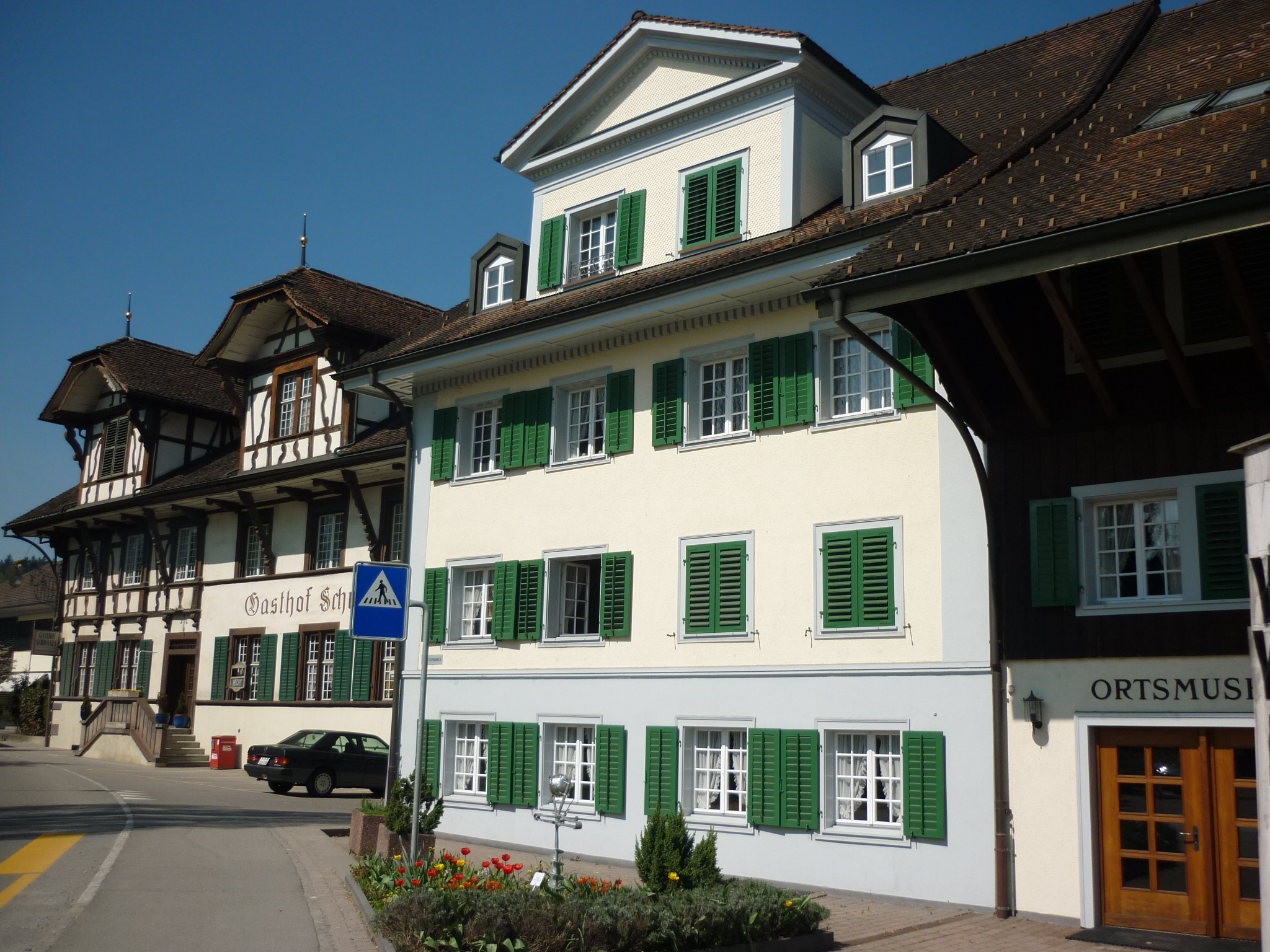 Local museum Merenschwand AG, Switzerland Ortsmuseum Merenschwand AG, Schweiz